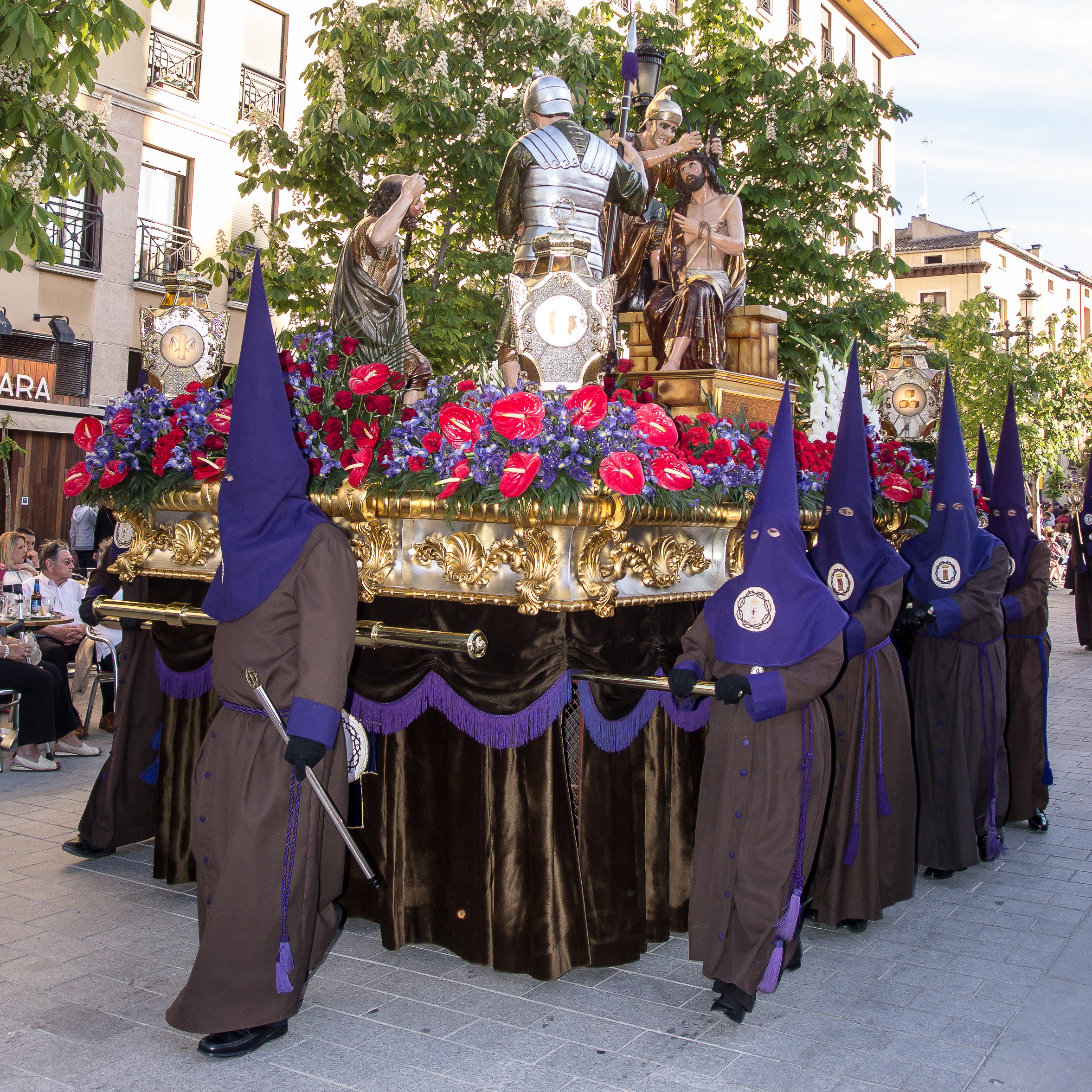 OLYMPUS DIGITAL CAMERA This is a photography of a Folklore festival in Spain (Wikidata id Q9075892).